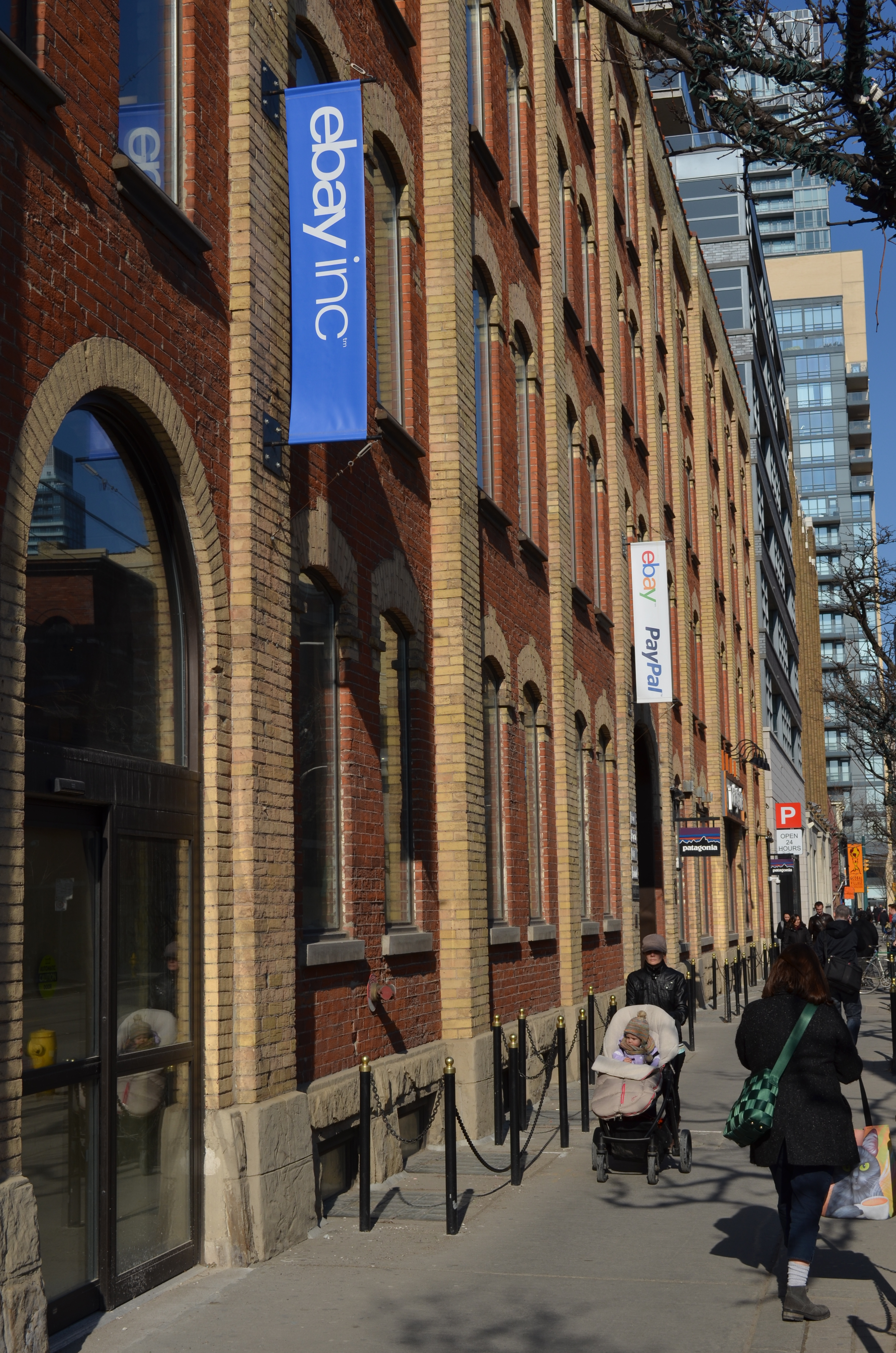 eBay, PayPal, Kijiji, and StubHub Toronto Office